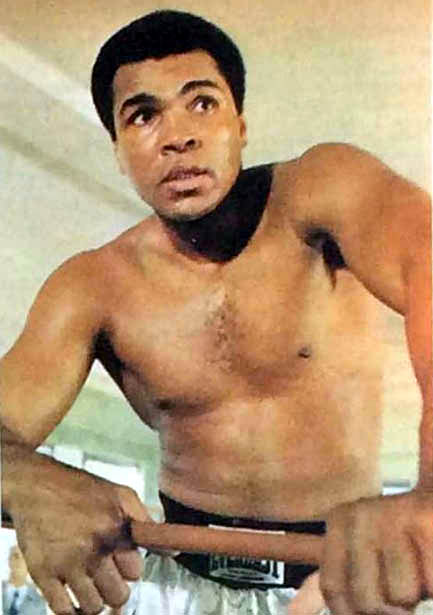 Muhammad Ali during the filming of The Greatest, covered by Argentine magazine El Gráfico.